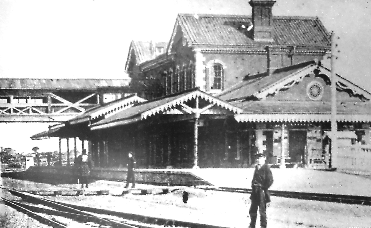 The Original Osaka Station in its early days (the first depot, track yard).